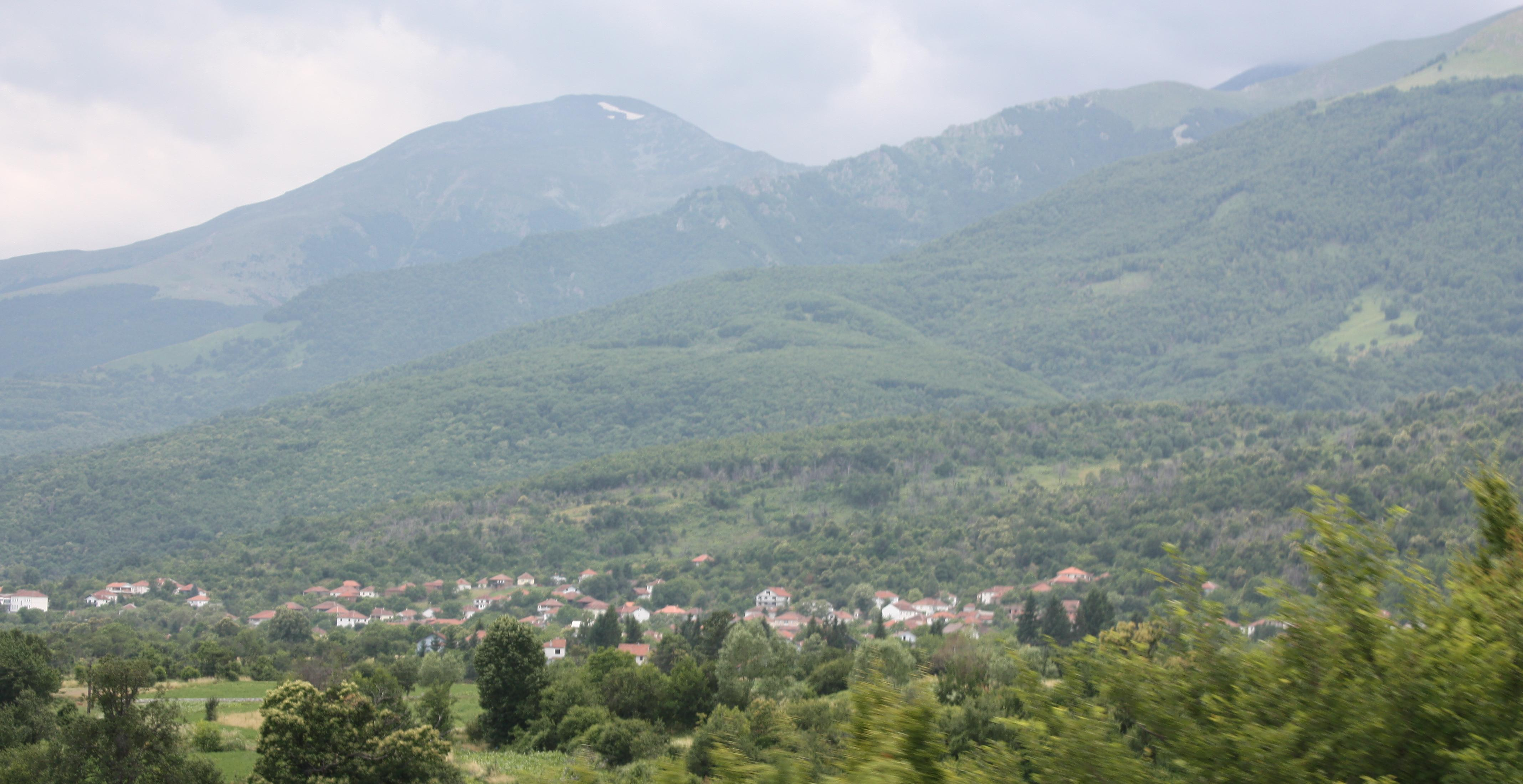 Vratnica, Macedonia